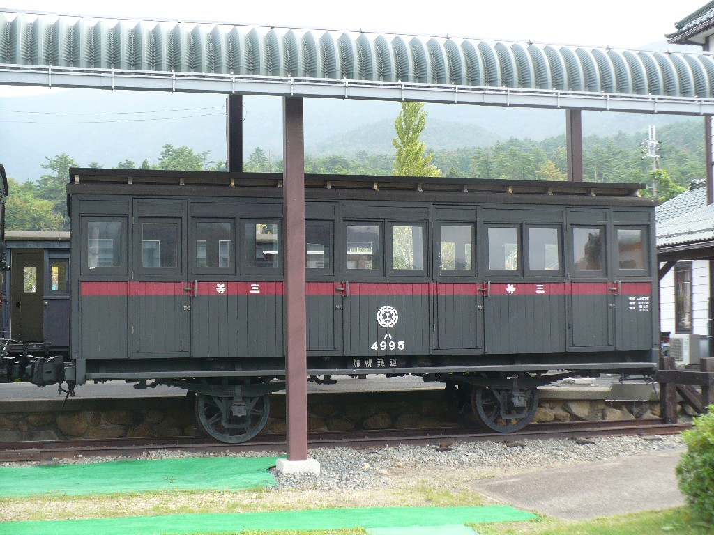 Kaya Railway Type Ha-4975 Coach (No. Ha-4995) preserved at Kaya Steam Locomotive Square.